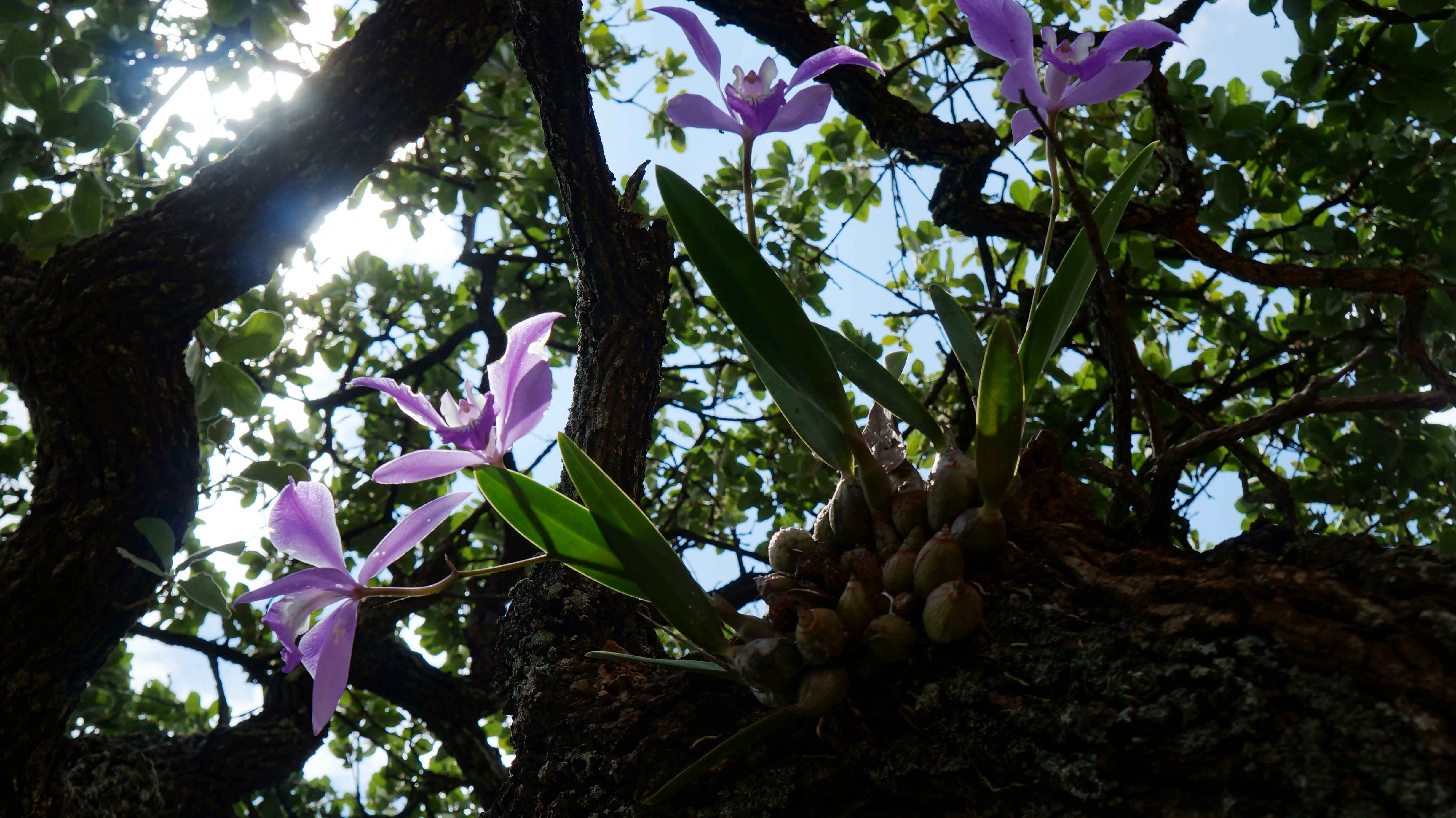 Endemic flower